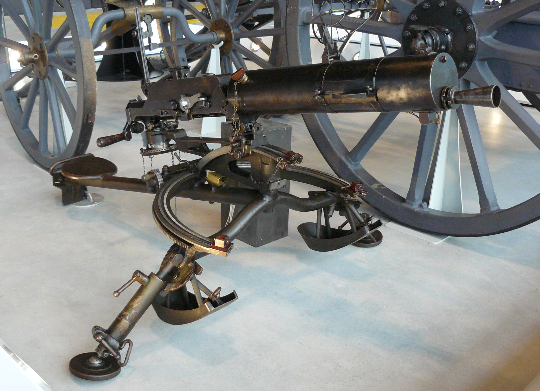 Schwarzloze machine gun. Used between 1908 – 1940 by Dutch Army. Calibre: 6,5 x 53,5R. Rate of fire: 400 per minute and with a maximum range of 3500 meter. Seen in Nationaal Militair Museum te Soesterberg.